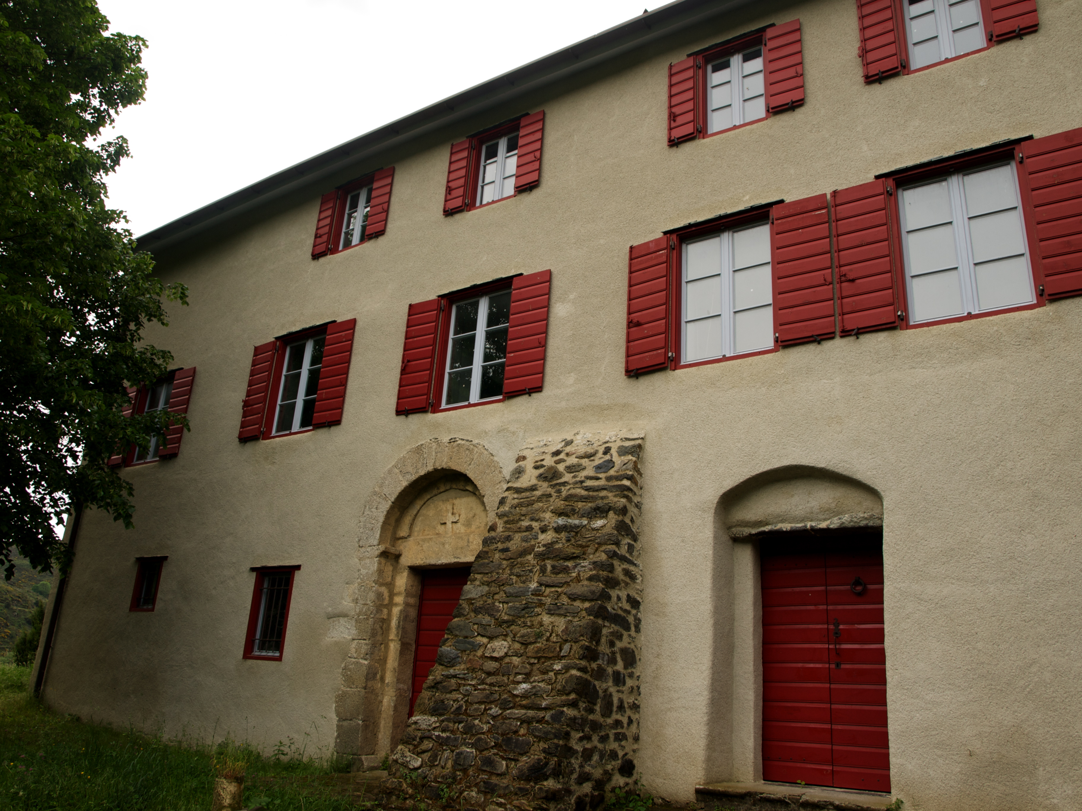 Photo of the little french town Urbanya